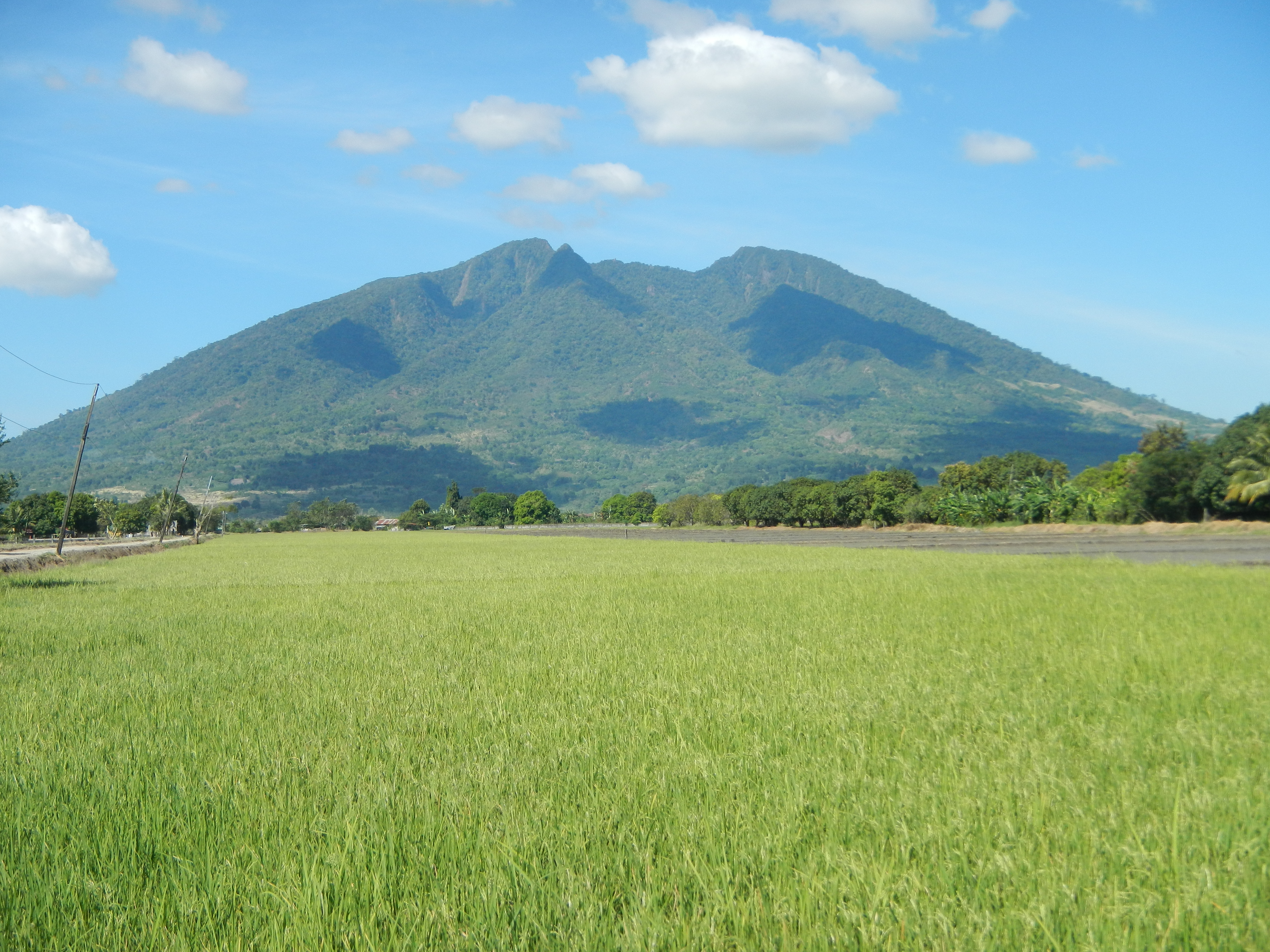 Barangay Kaledian (Camba), Arayat, Pampanga (Ccommunity Police Assistance Center (COMPAC) beside the Exact Colleges of Asia owned by EXACT Center, Inc. at the foot of Mount Arayat with Irrigation canal in the Philippines along the Gapan-San Fernando-Olongapo Road).